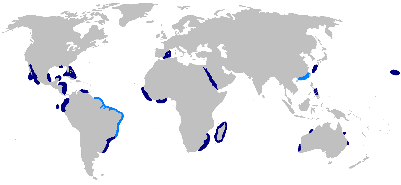 Distribution map for Carcharhinus altimus. Base map here.